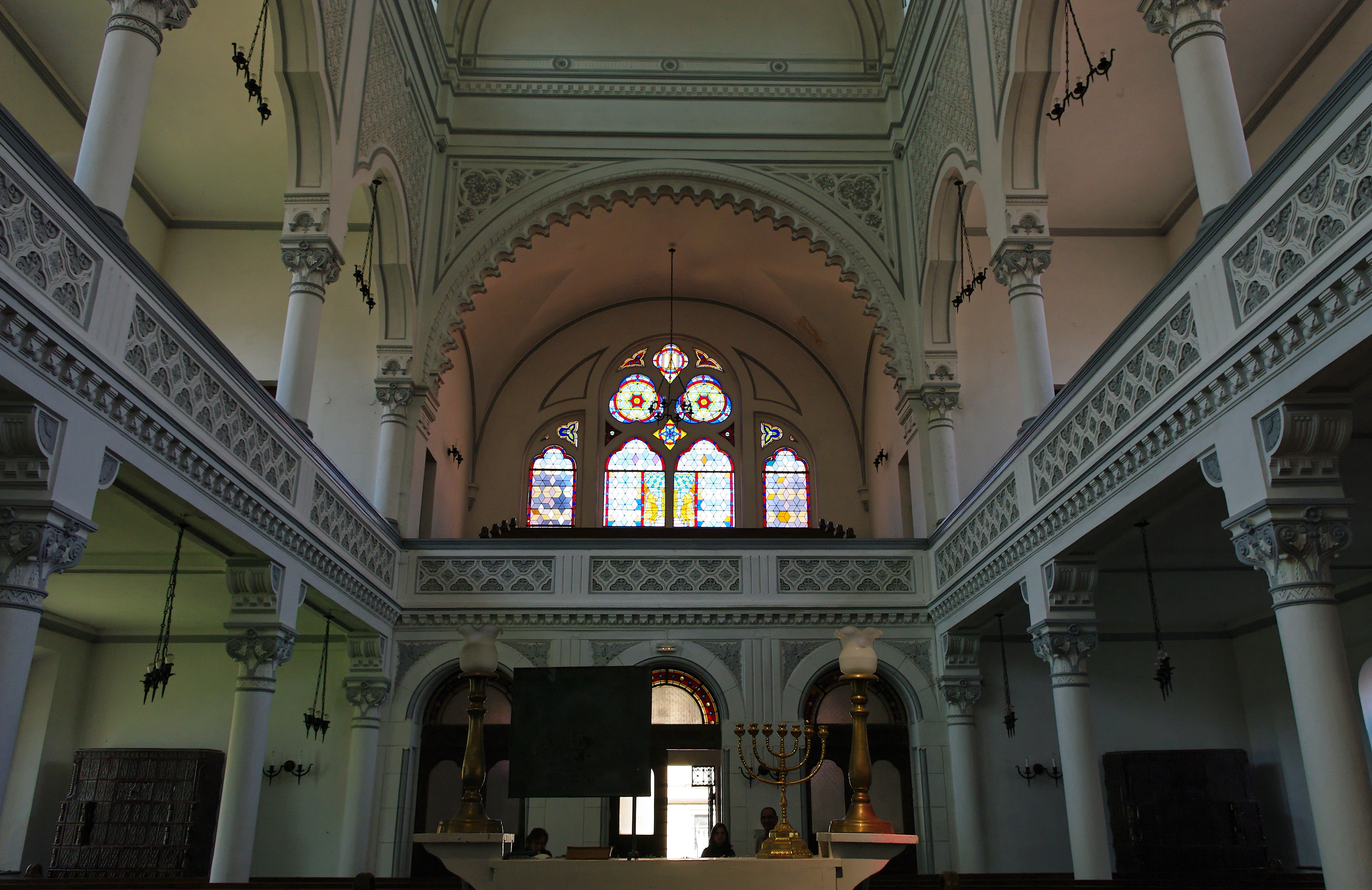 inside of the neologue synagogue in Brașov